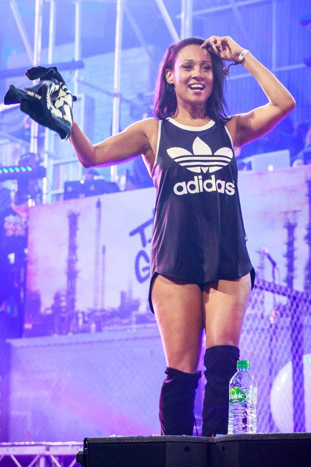 Singer Lisa Maffia performing at o2 Arena for Redbull Culture Clash in London 2016